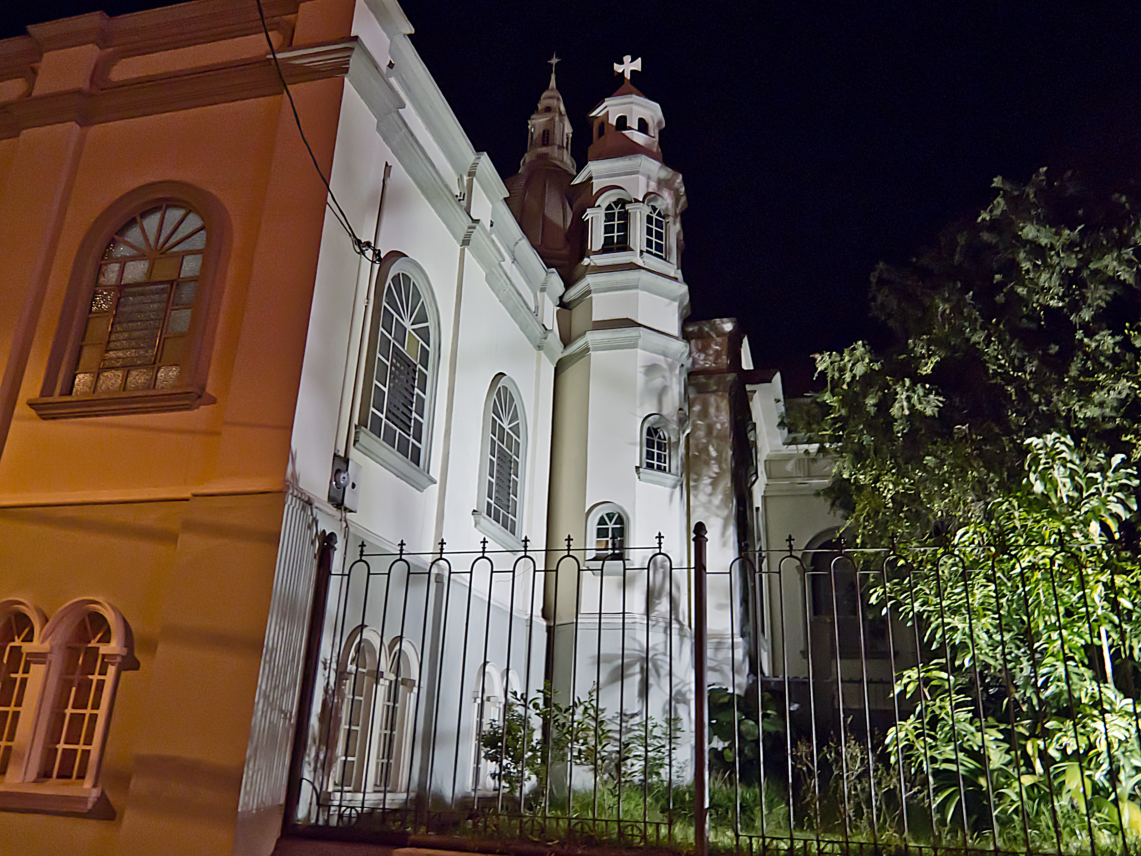 Cathedral in downtown Desamparados, at night